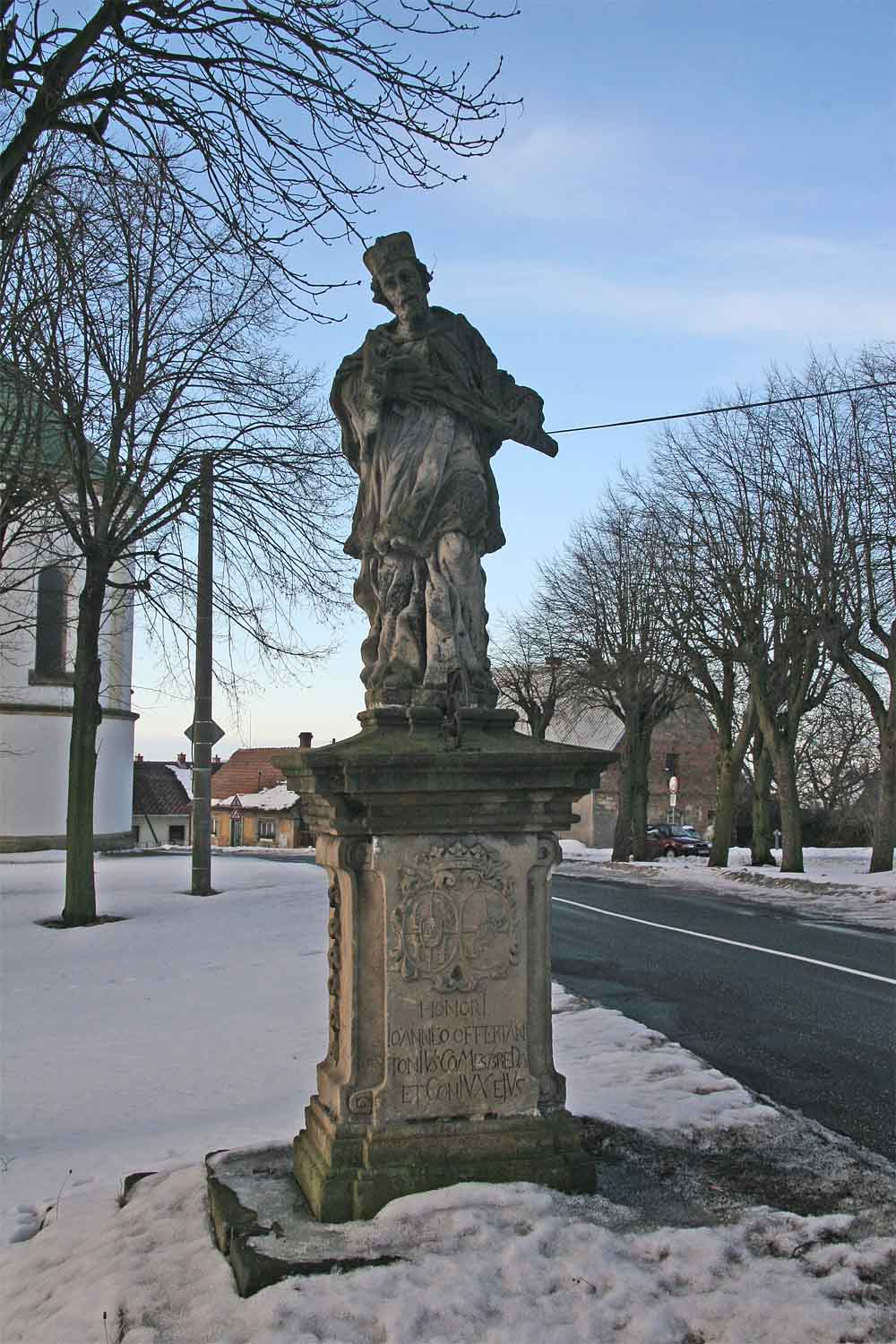 Statue of Saint John Nepomucene in Stračov, Hradec Králové District, Czech Republic